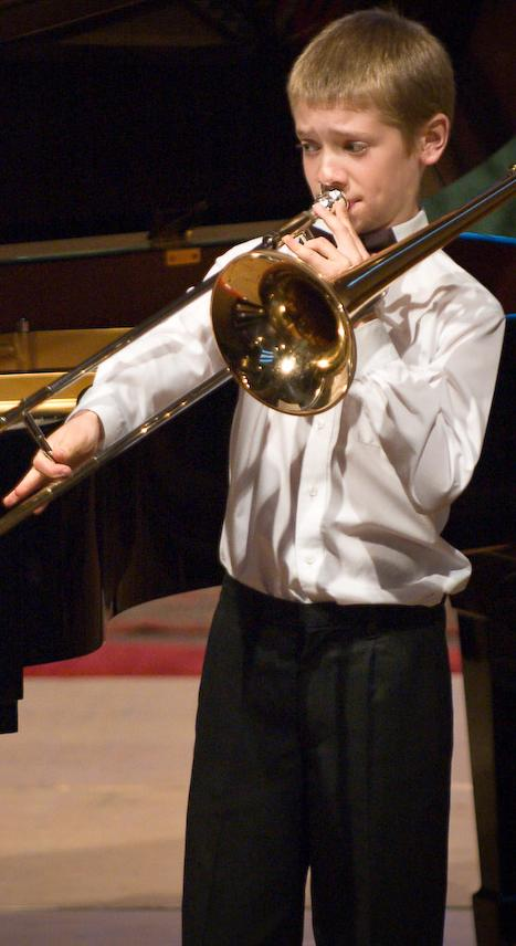 Peter Moore, BBC Young Musician of the Year in 2008. Cropped from original.